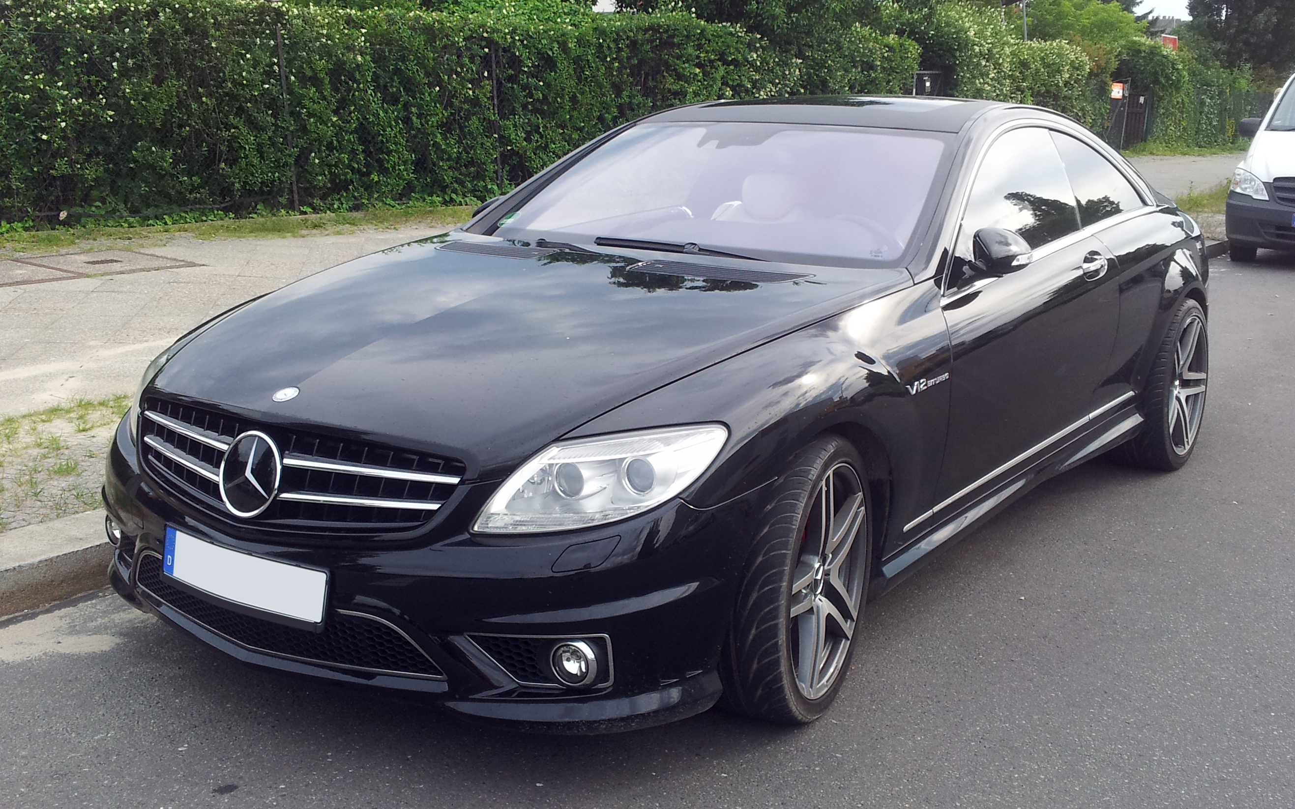 Mercedes-Benz CL 65 AMG (type C 216, pre-facelift)